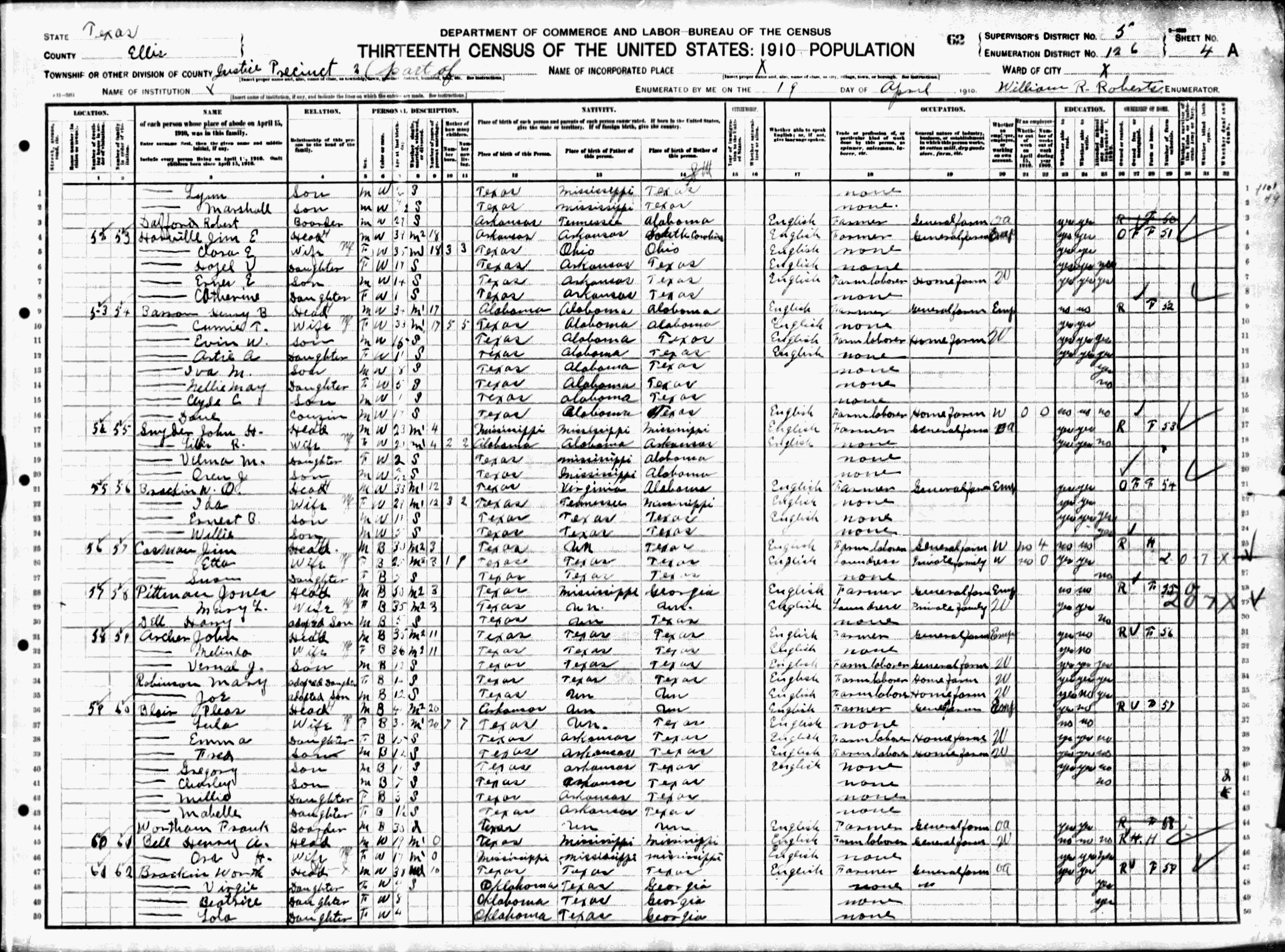 Clyde Barrow in the 1910 US Census in Ellis County, Texas. Wikipedia:en:Commons:Category:United States Census Bureau Wikipedia:en:Commons:Category:1910